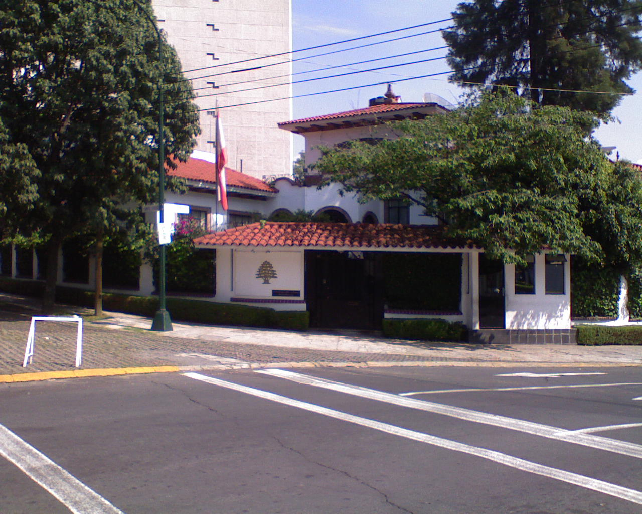 Embassy of Lebanon in Mexico City